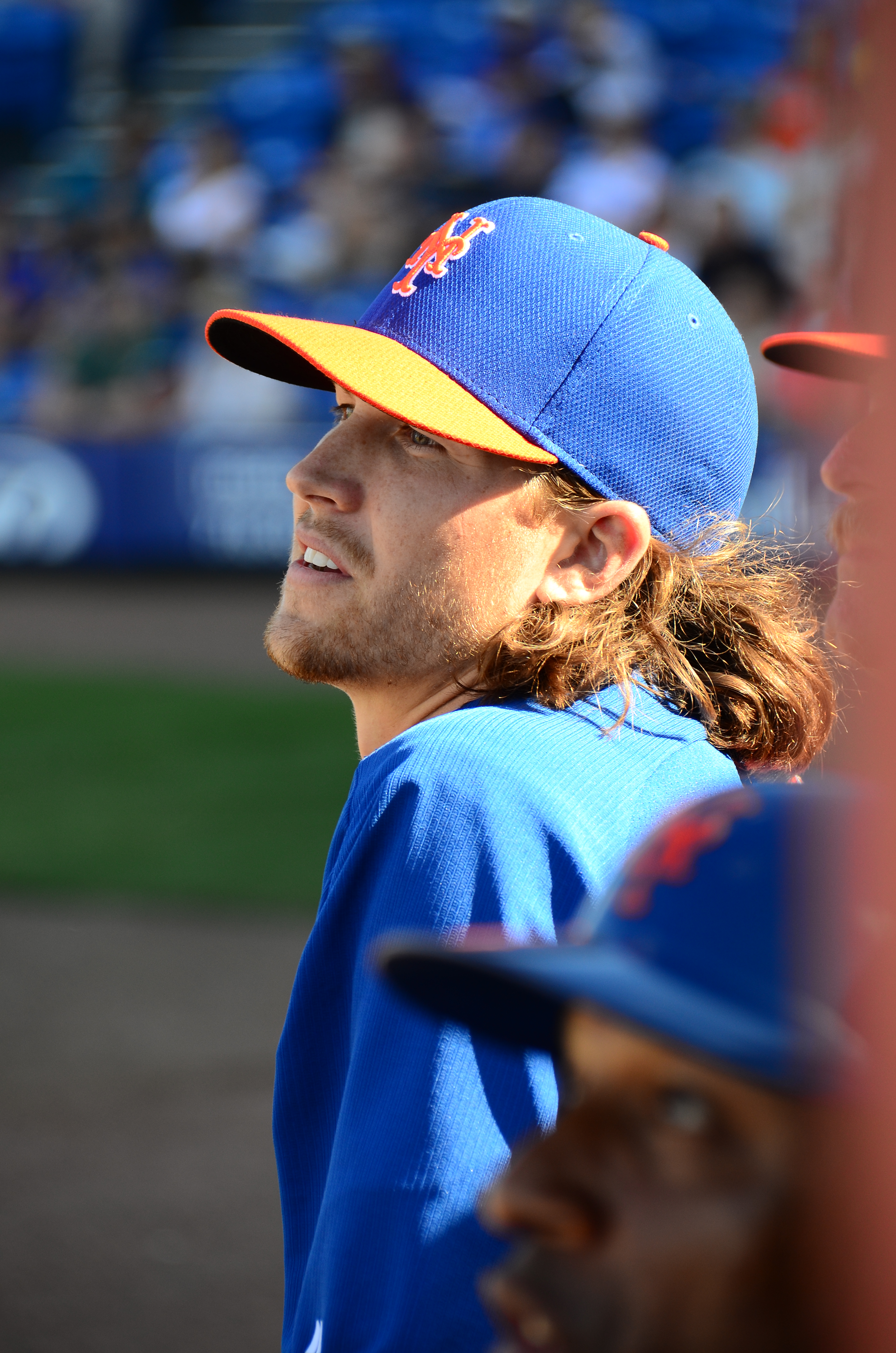 Jacob deGrom, New York Mets Spring training, March 7, 2014